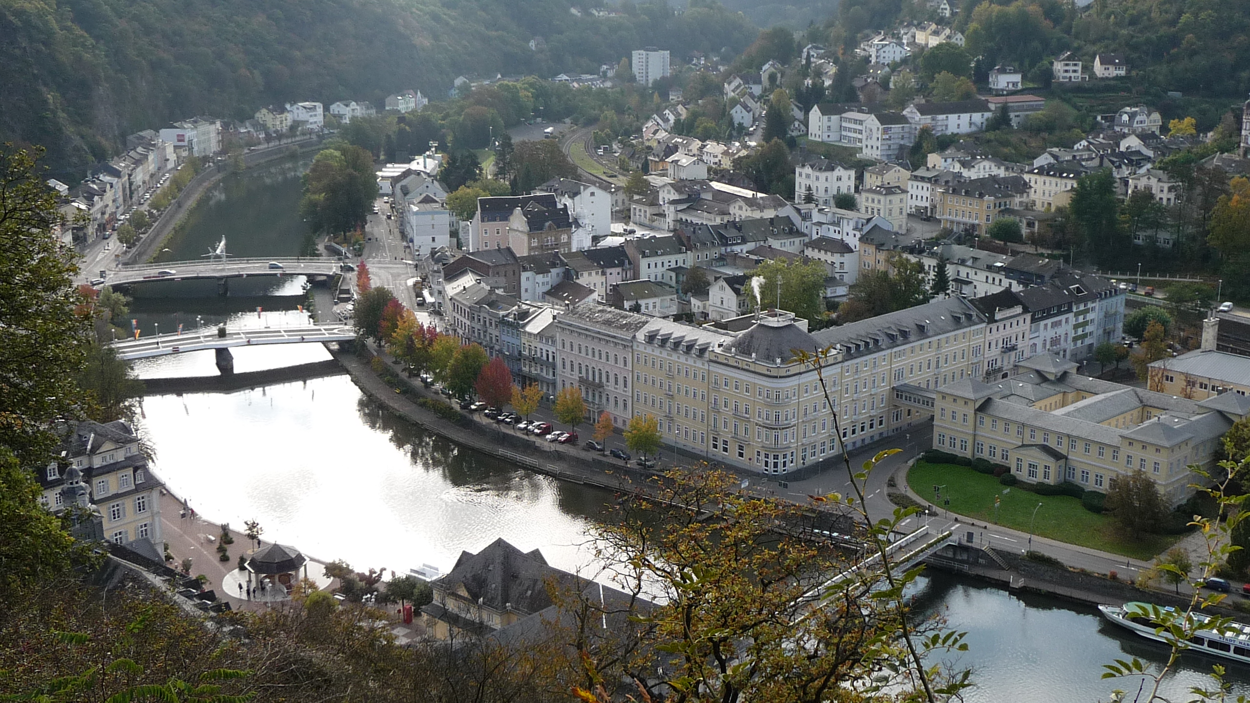 Bad Ems, Lahn.